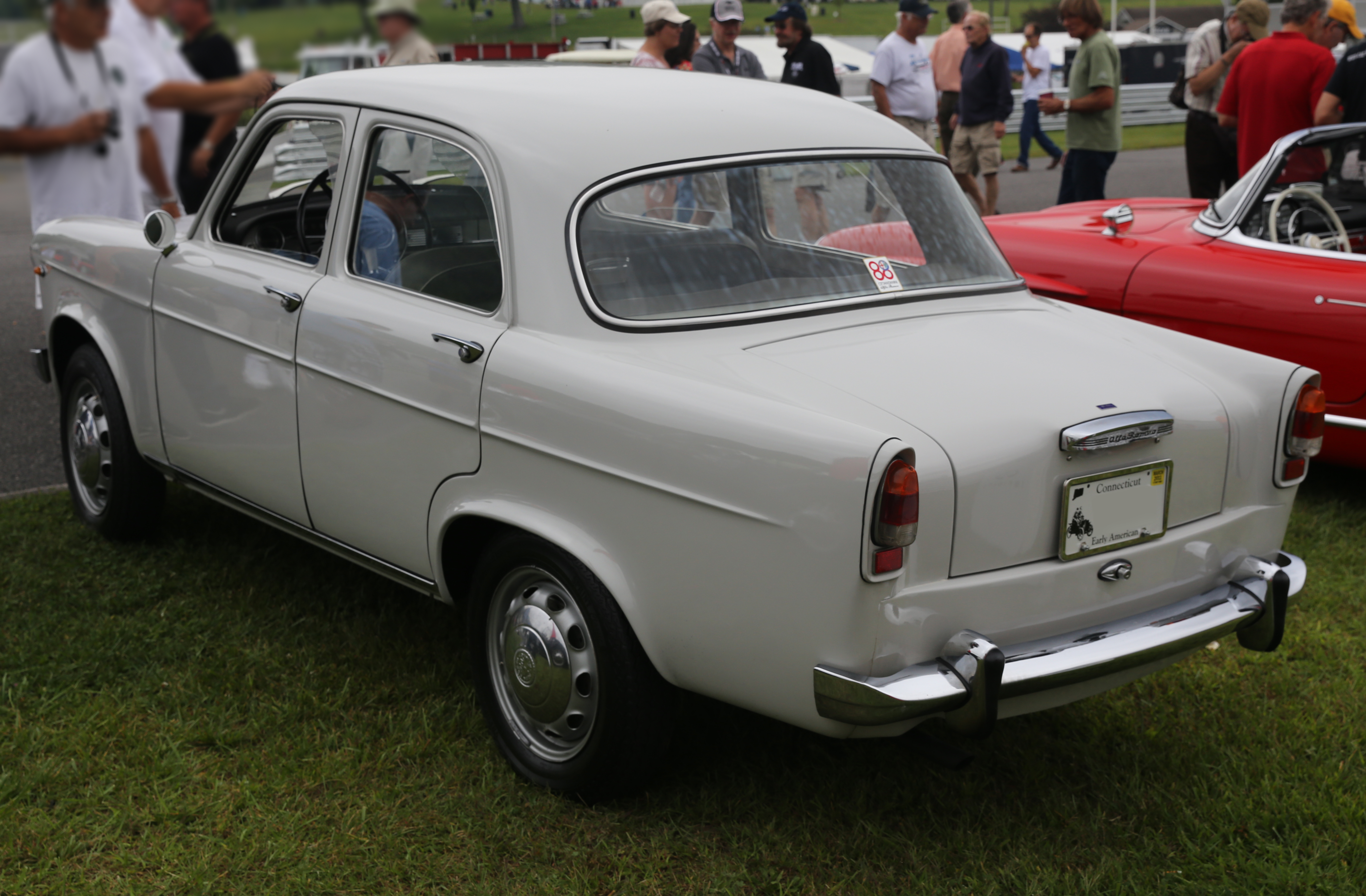 1960 Alfa Romeo Giulietta Berlina Normale (2nd series), seen at the 2014 Lime Rock Concours d'Élegance.